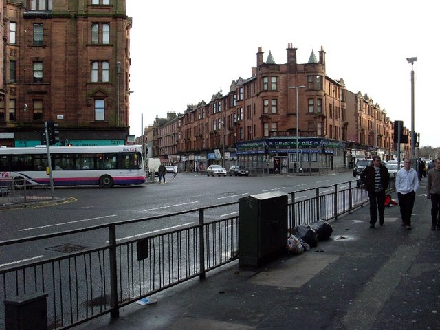 Parkhead Cross The meeting of (from left to right) Gallowgate, Duke Street, Westmuir Street and Tollcross Road.